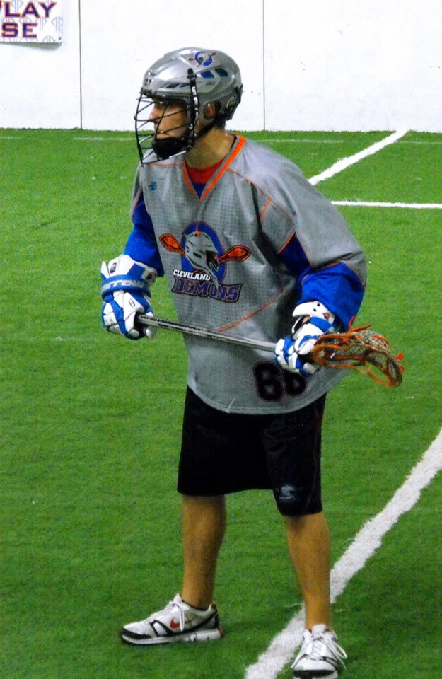 These are images of Continental Indoor Lacrosse League action during the 2014 season and are taken by Devan Mighton.